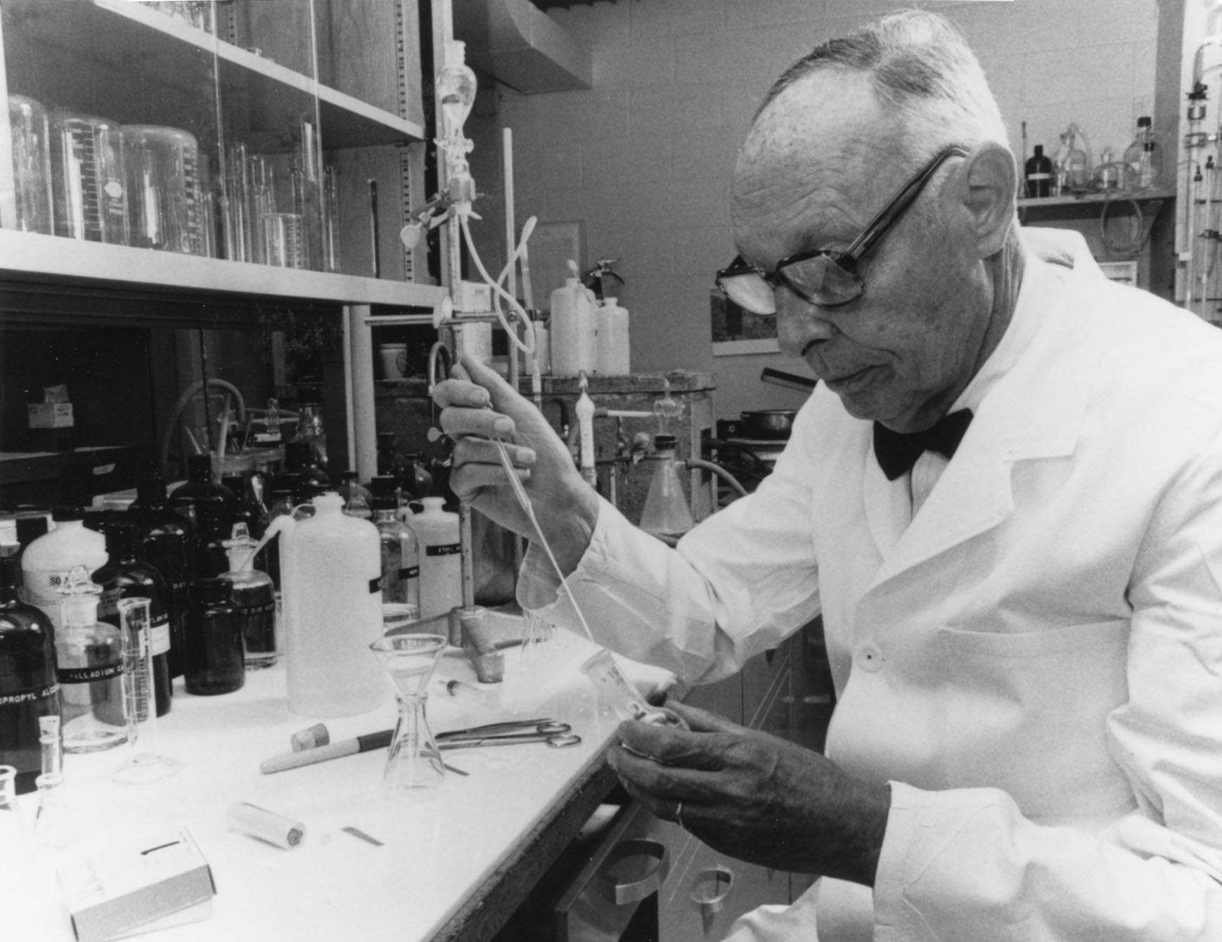 Dr. Hofmann, pipetting a reagent in the course of biotinylating a peptide.